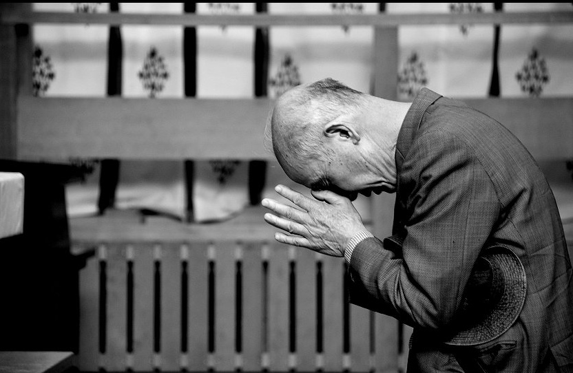 A Japanese man bowing in prayer at the Kamakura shrine. [Note:Cropped from original to remove black space]